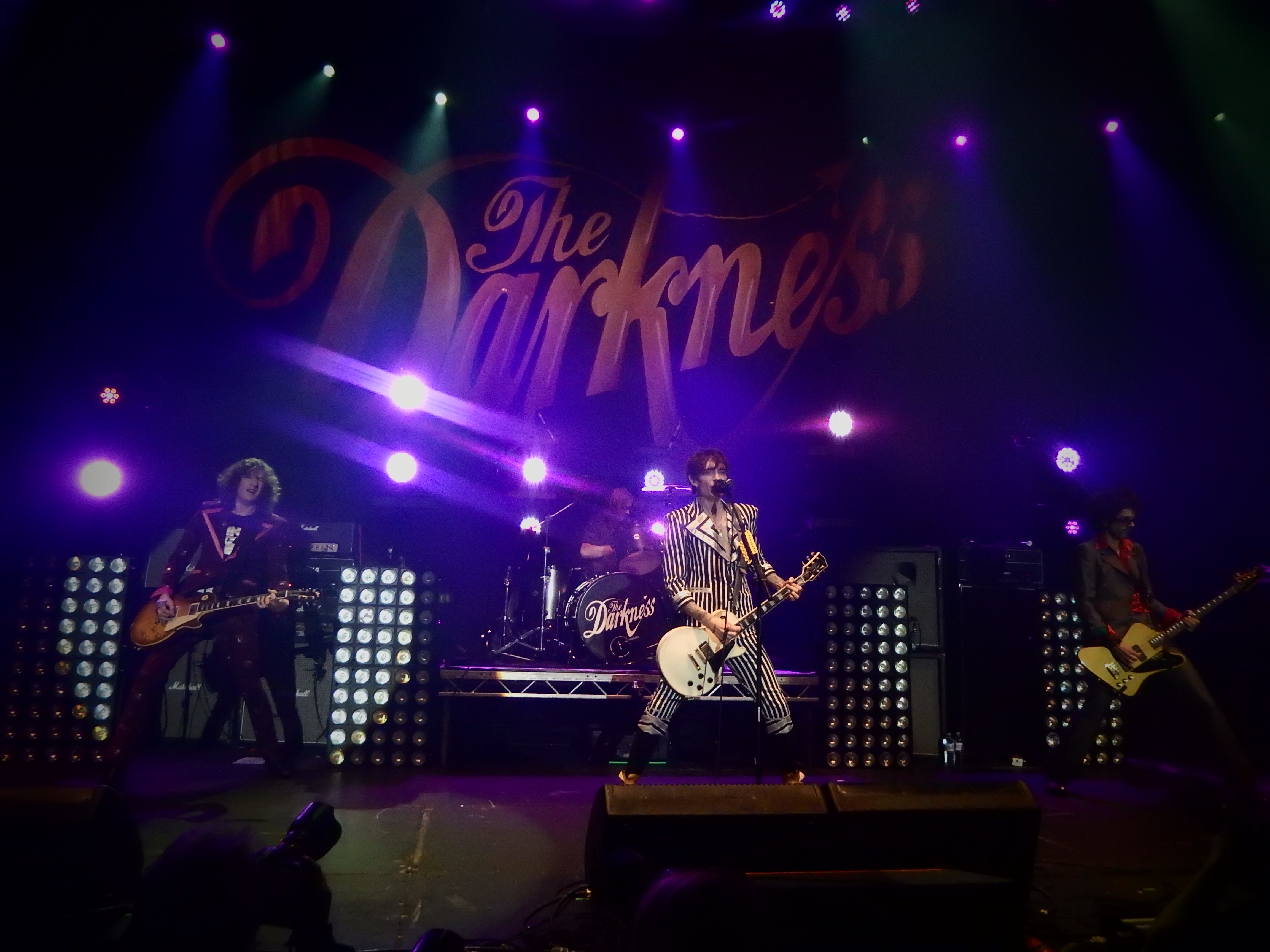 The Darkness, Roundhouse, London